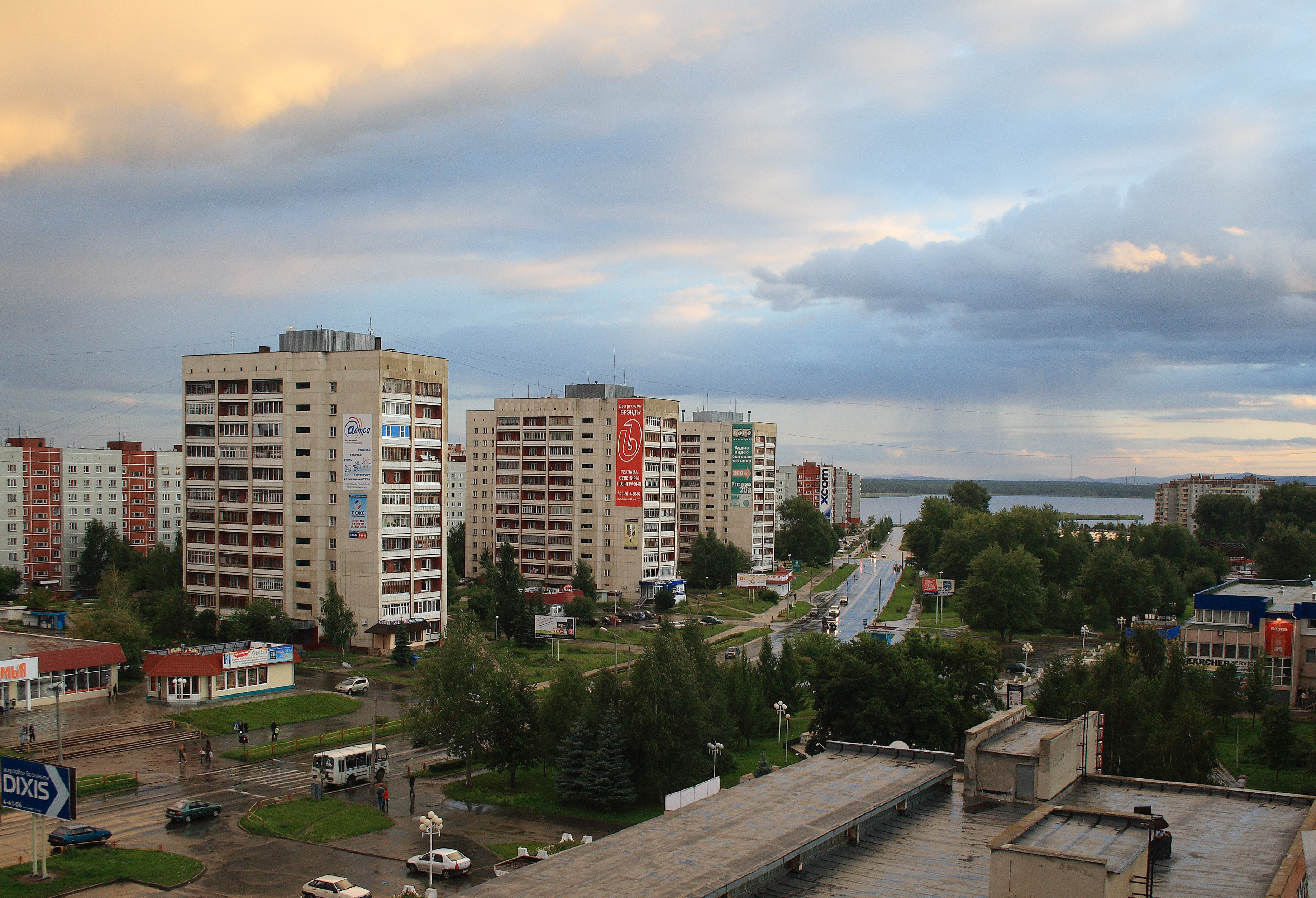 Ozyorsk center